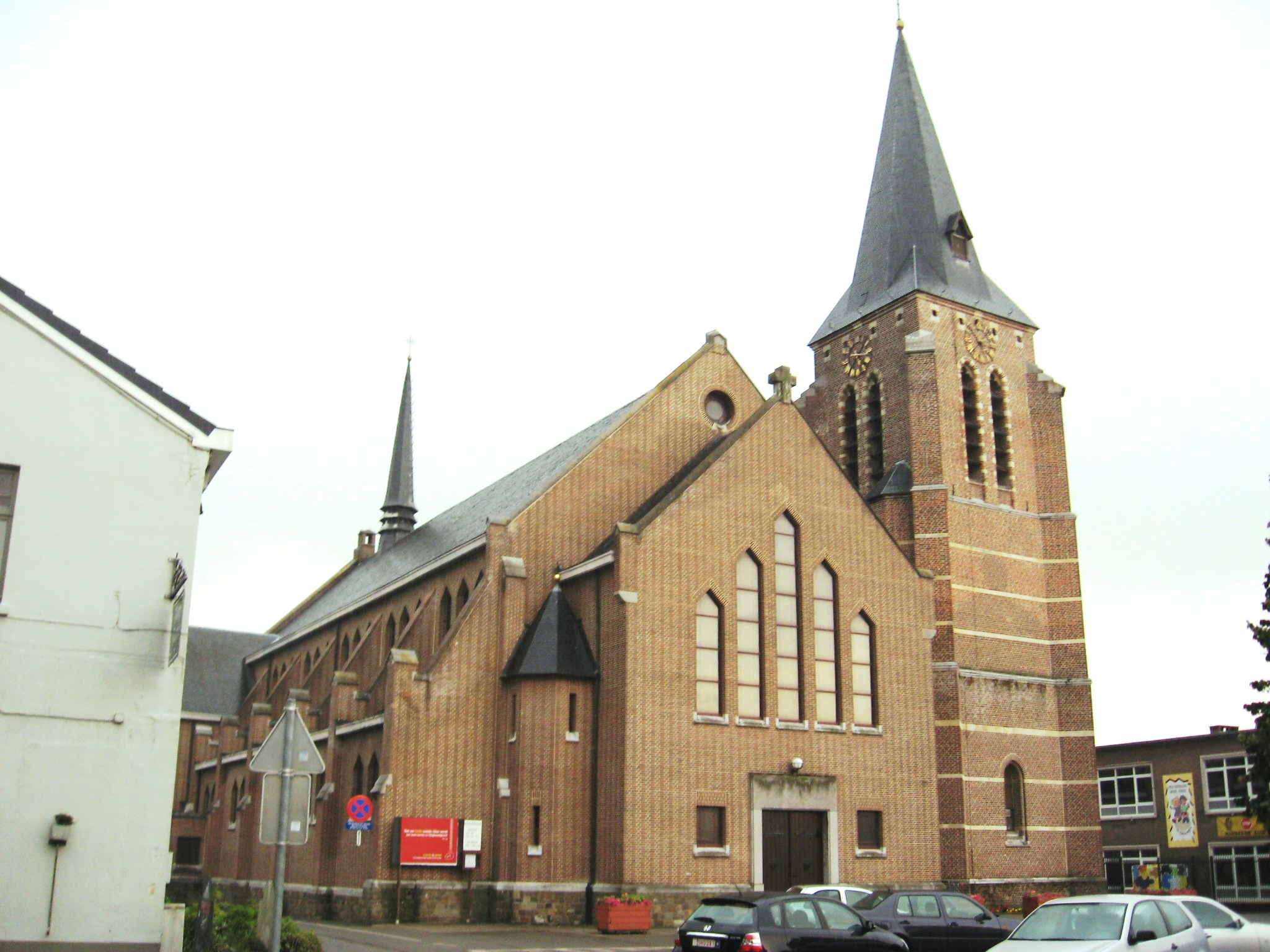 Church of Saint Lambert in Hechtel, Hechtel-Eksel, Limburg, Belgium